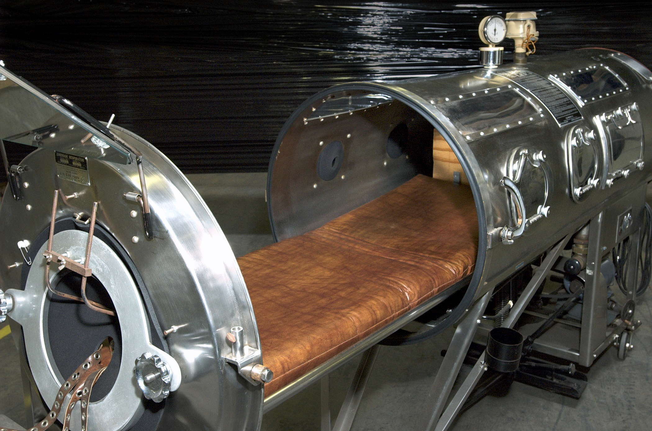 This photograph shows an opened artificial respirator commonly known as the iron lung. Polio patients of the 1950s depended on these devices to breathe after being paralyzed with this devastating virus. This iron lung was donated to the CDC’s Global Health Odyssey by the family of polio patient Mr. Barton Hebert of Covington, Louisiana, who’d used the device from the late 1950s until his death in 2003.